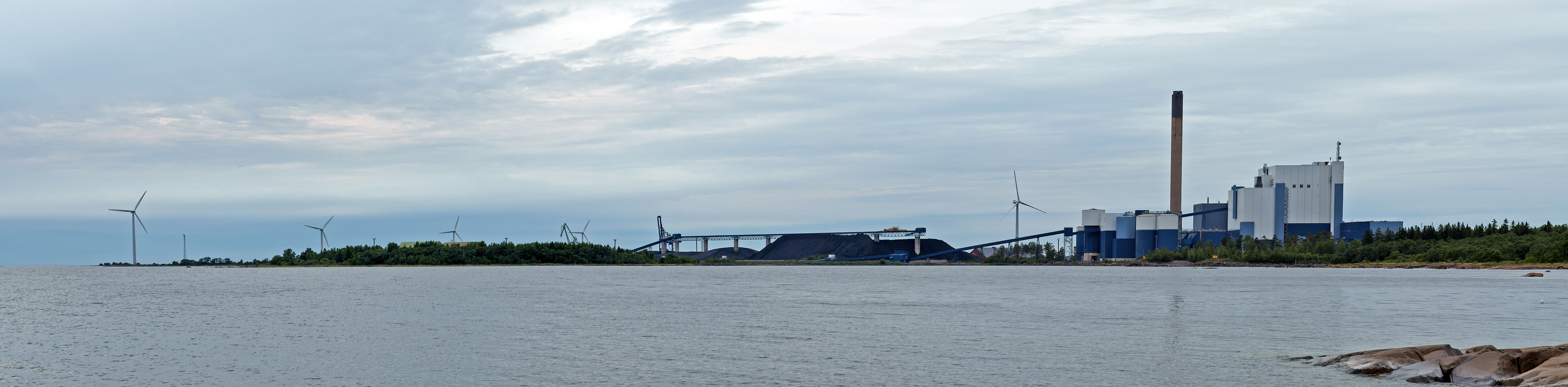 Tahkoluoto seen from Reposaari.